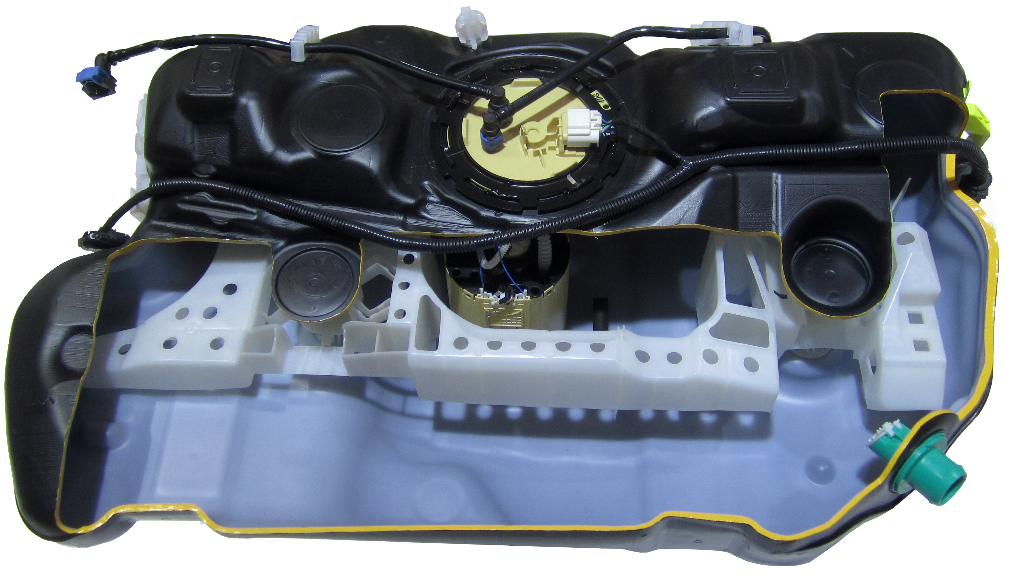 Inside of an automobile Fuel Tank with pump, level sensors, ...